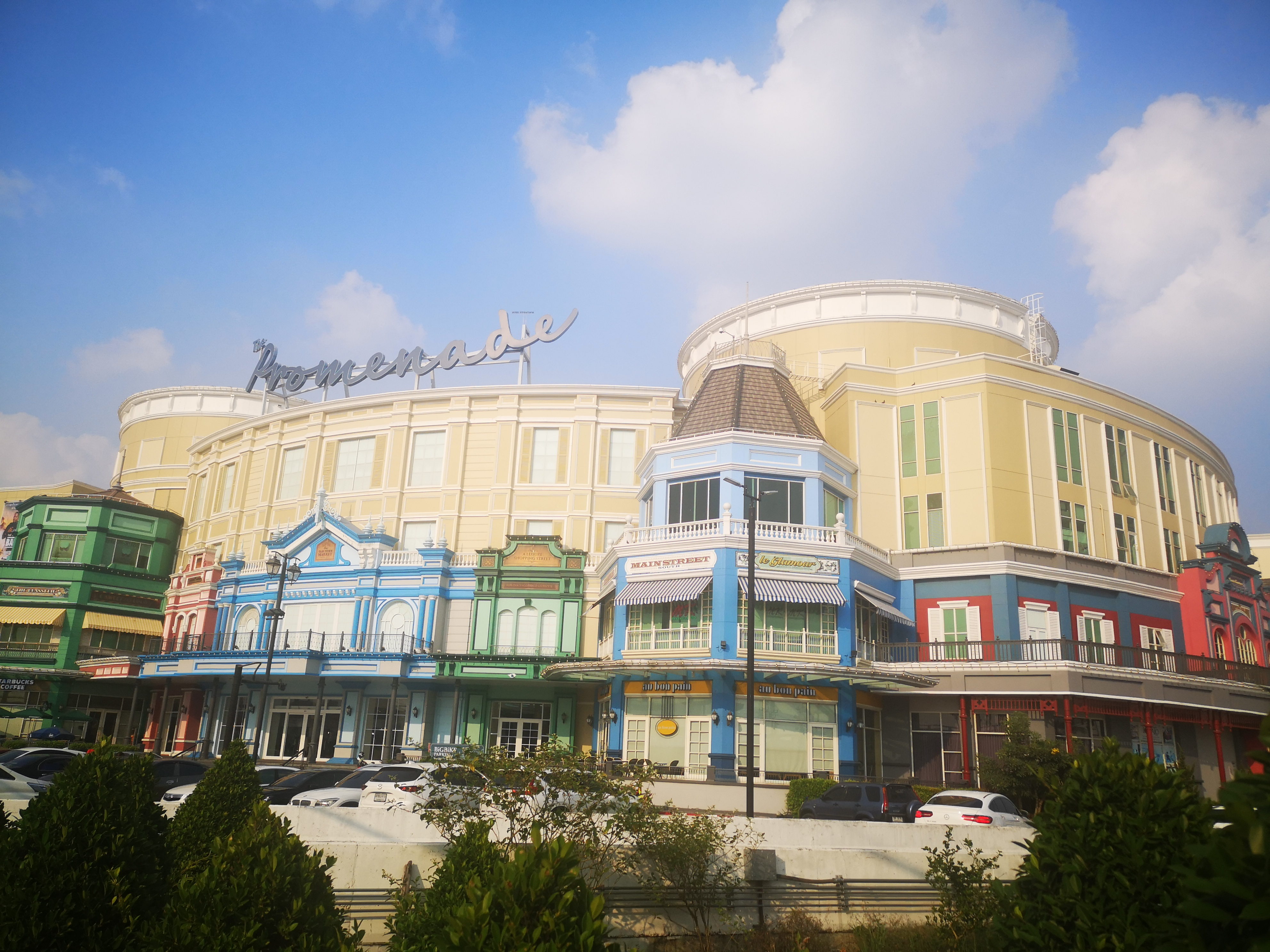 Promenade (Thanon Rarm Intra)